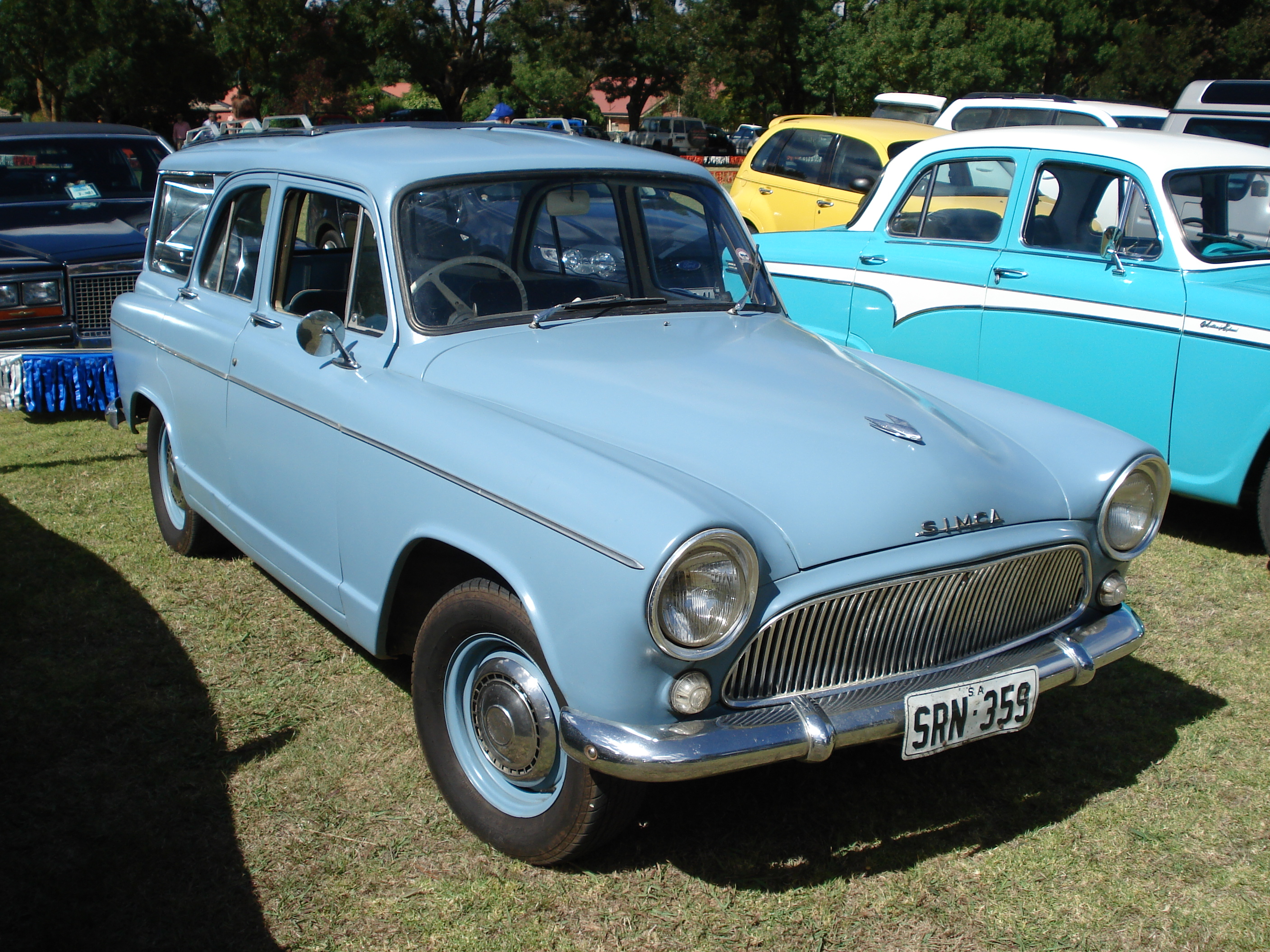 Simca P60 Aronde Station Wagon. The P60 Aronde 5 door Station Wagon was developed by Chrysler Australia, with production commencing in December 1961.